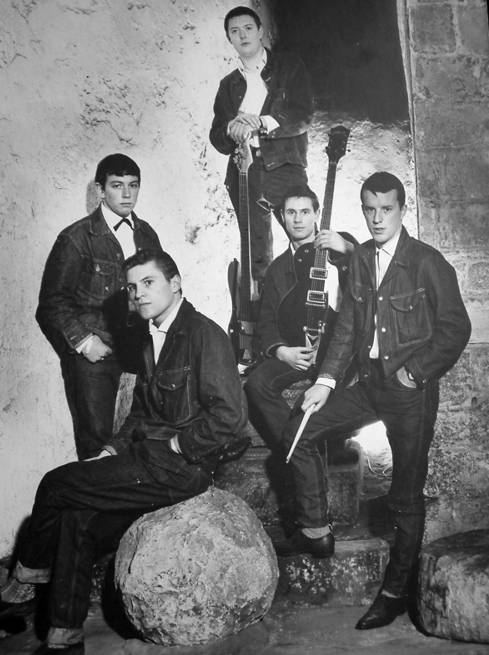 An early publicity shot of the Animals taken at Newcastle Castle Keep probably in early 1964. L-R Eric Burdon (Vocals) Alan Price (Keyboards) Chas Chandler (Bass) Hilton Valentine (Guitar) John Steel (Drums)